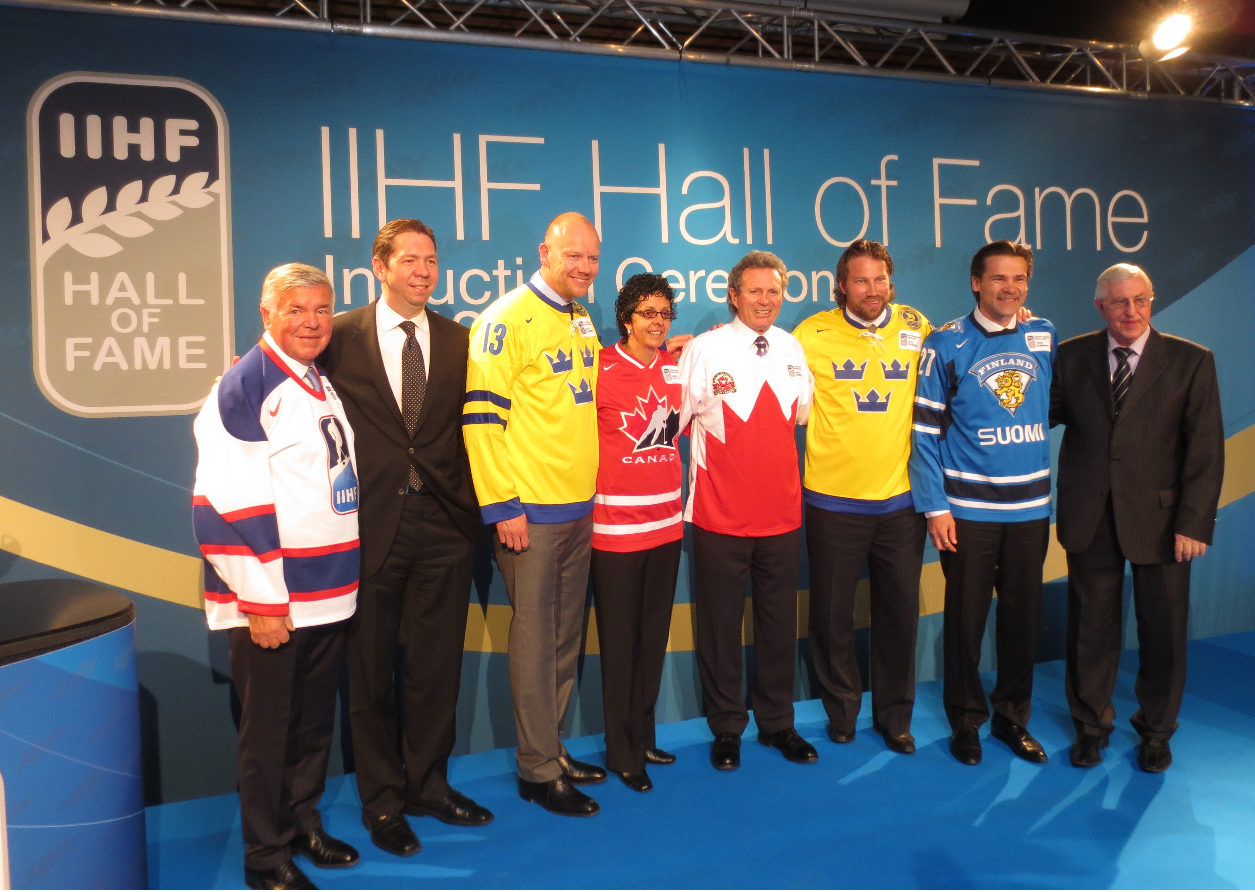 The new members of the IIHF Hall of Fame in 2013 (left to right) : Jan-Åke Edvinsson, Gord Miller, Mats Sundin, Danielle Goyette, Paul Henderson, Peter Forsberg and Teppo Numminen. There is also Boris Mikhailov on the right, receiving a price for the Soviet Union 1954 team. That was in Stockholm, Sweden, during the 2013 IIHF World Championship.